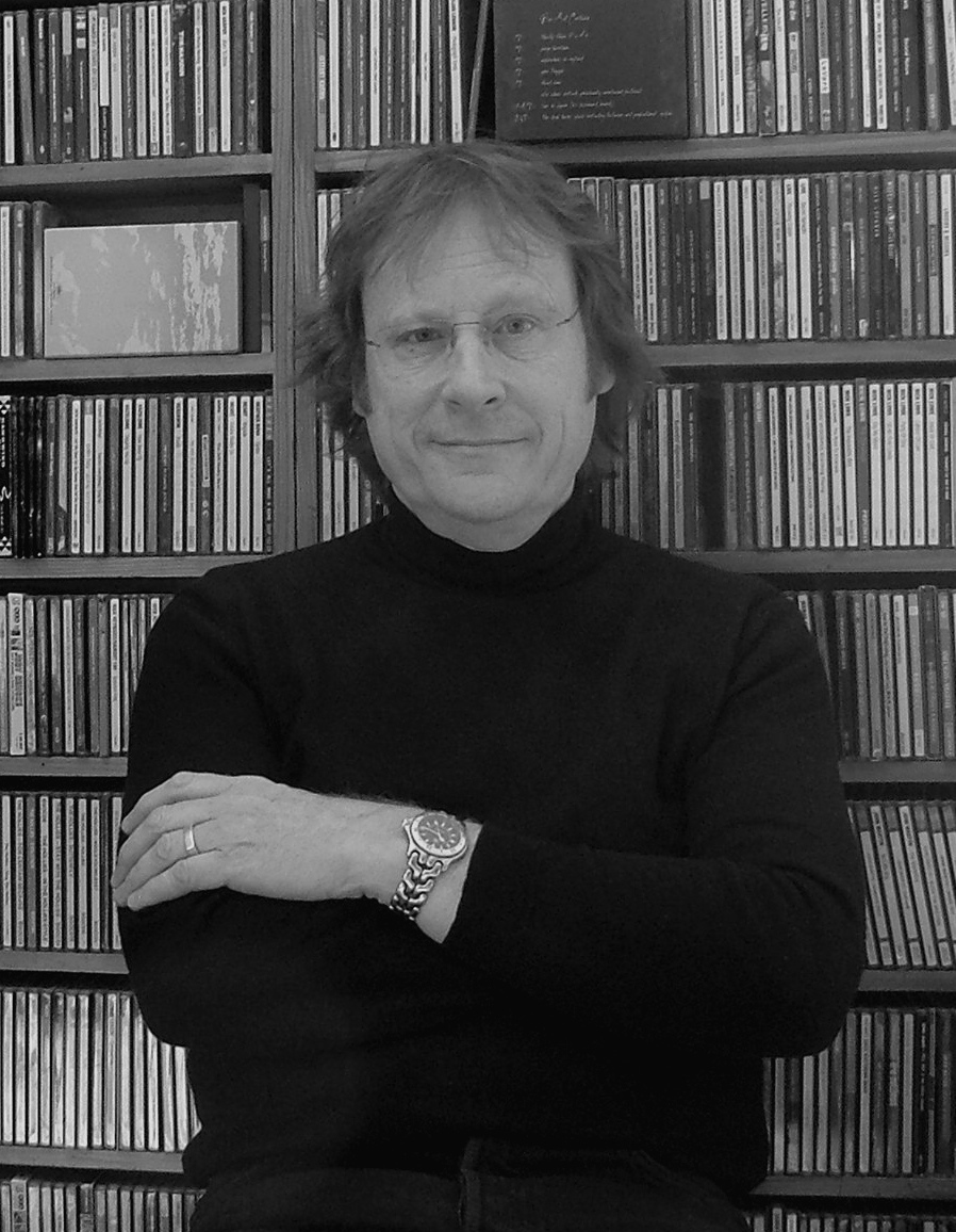 The source of this image is the photographer Jenny Rastall who is the sole owner and copyright holder of this work and agrees to publish it under the Creative Commons Attribution 3.0 License.